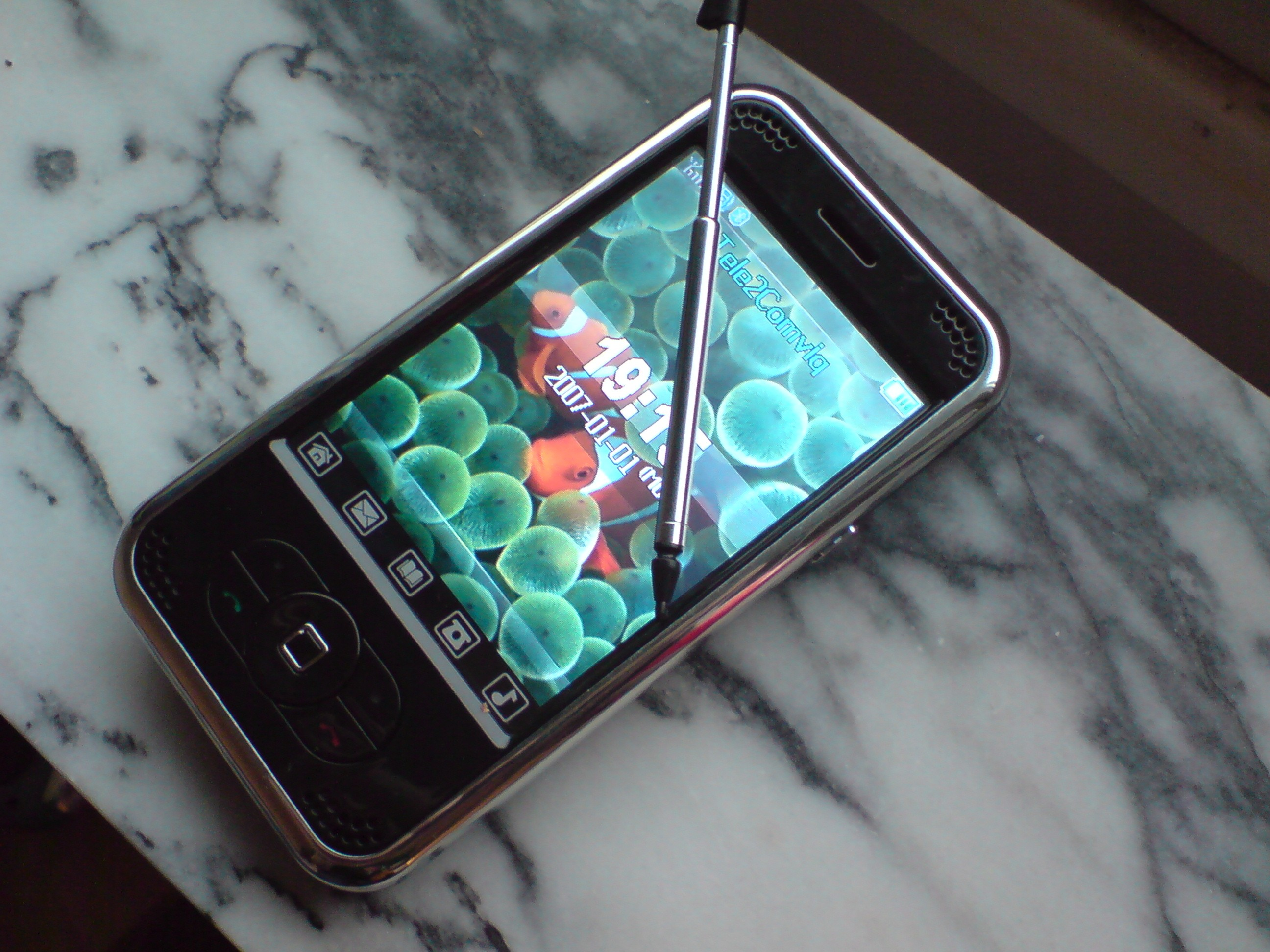 CECT P168+ mobile phone produced by Qiao Xing company.